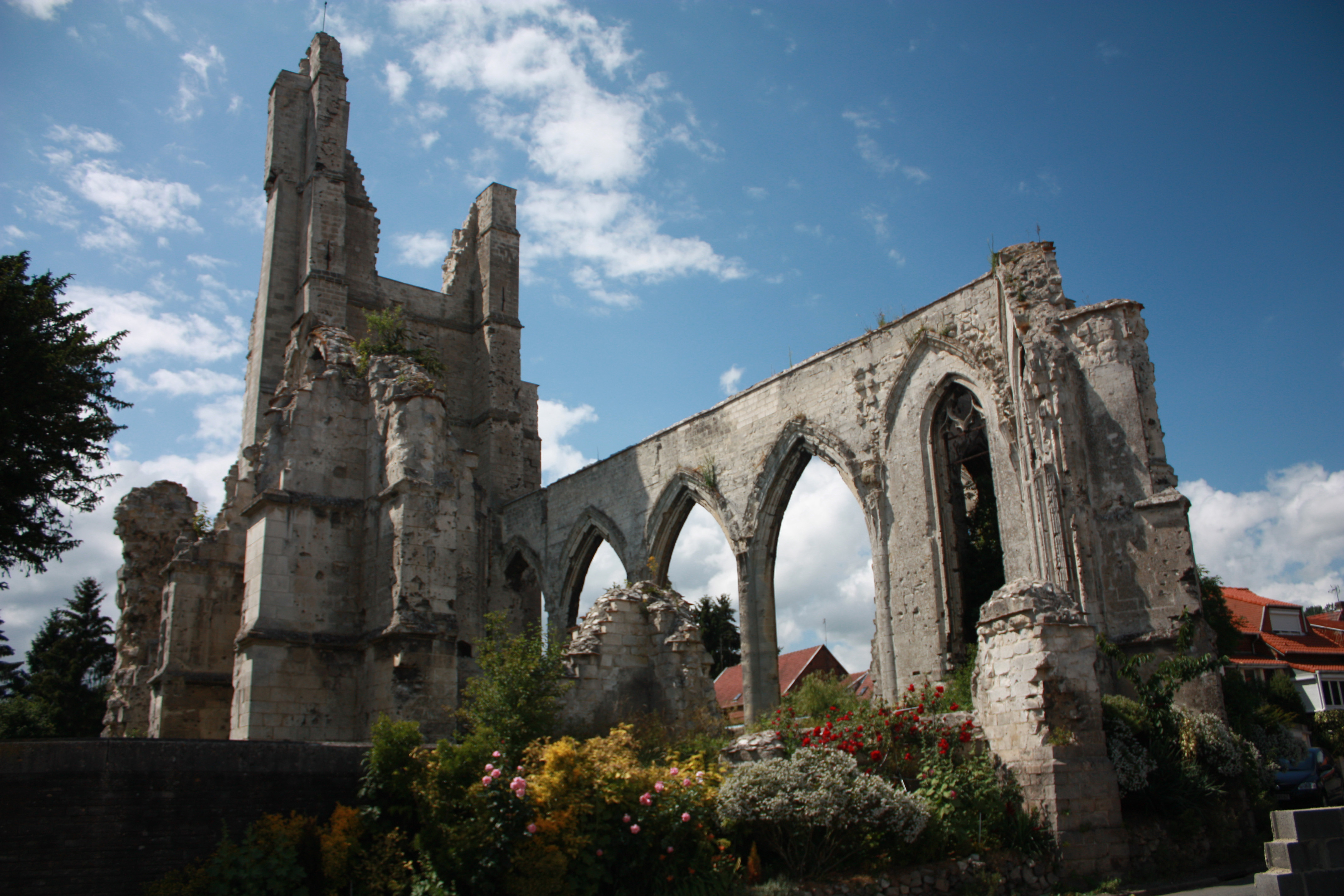 Ruins of the Church from the sixteenth century, destroyed during the World War I.